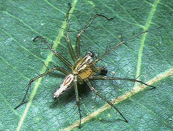 male Oxyopes sertatus from Okinawa.